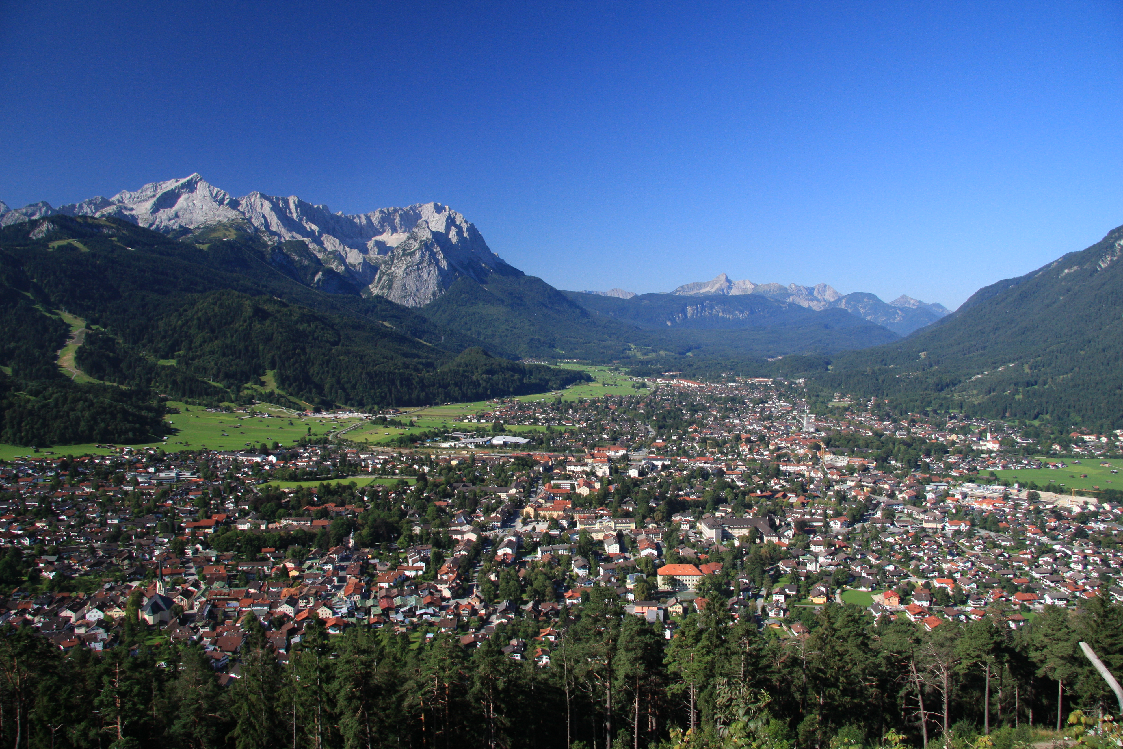 Garmisch-Partenkirchen with the mountains Alpspitze, Zugspitze and Daniel in the background